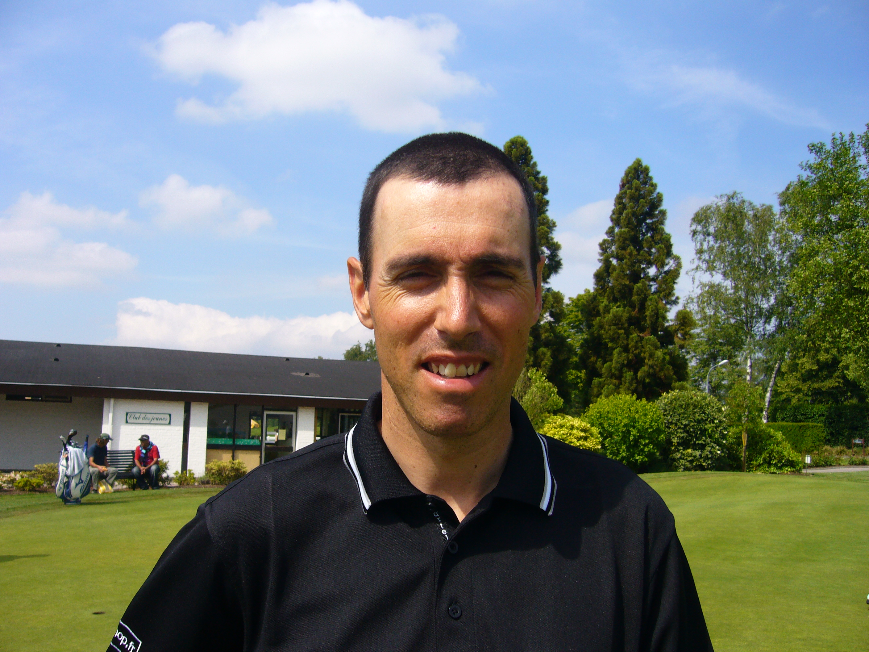 Dominique Nouailhac, French golfprofessional